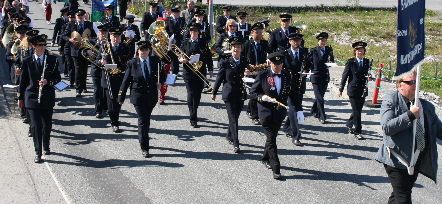 Brønnøysund Musikkorps, Norway, on May 17, Constitution Day.